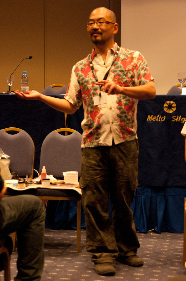 Japanese film director and make-up artist Yoshihiro Nishimura at the Sitges Film Festival in 2010